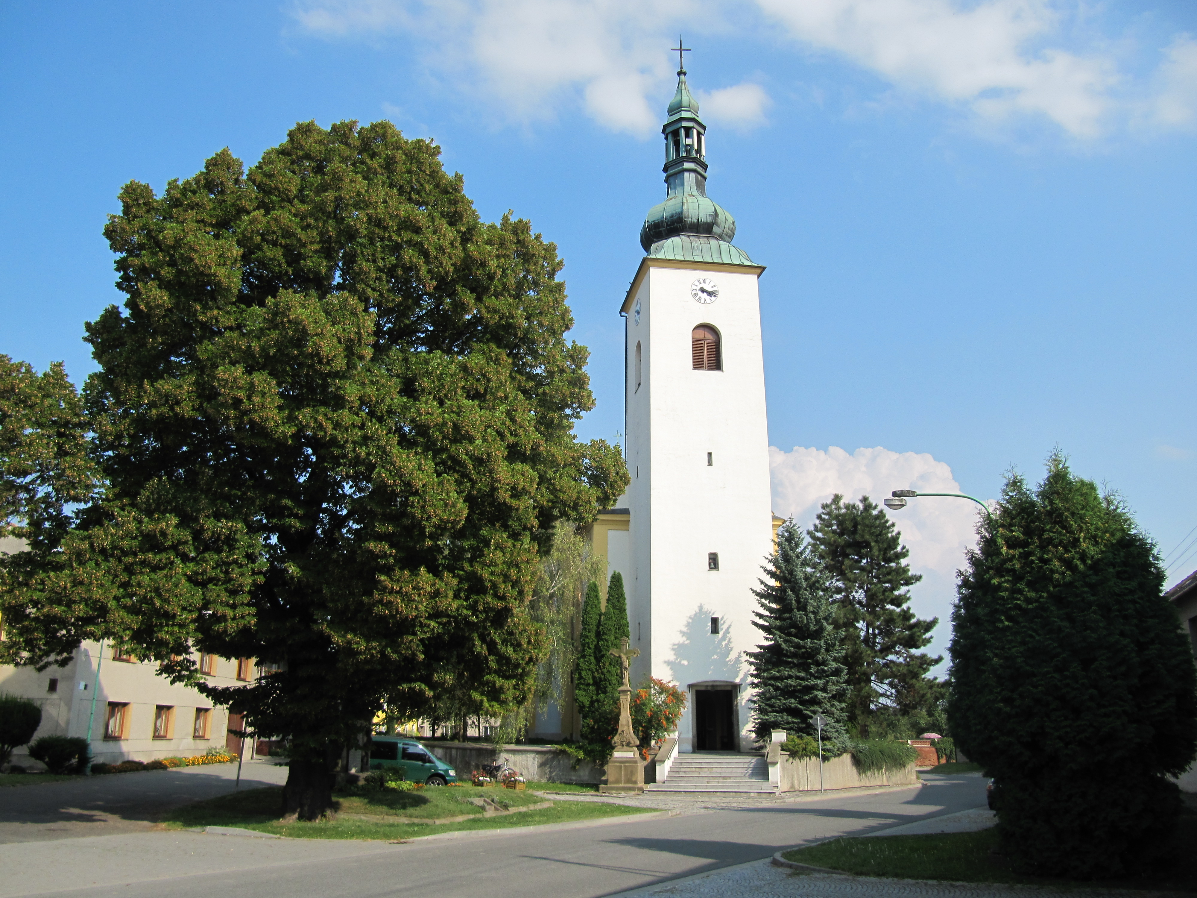 Těšetice in Olomouc District, Czech Republic. Church of St. Peter and Paul with a 35 m high tower.